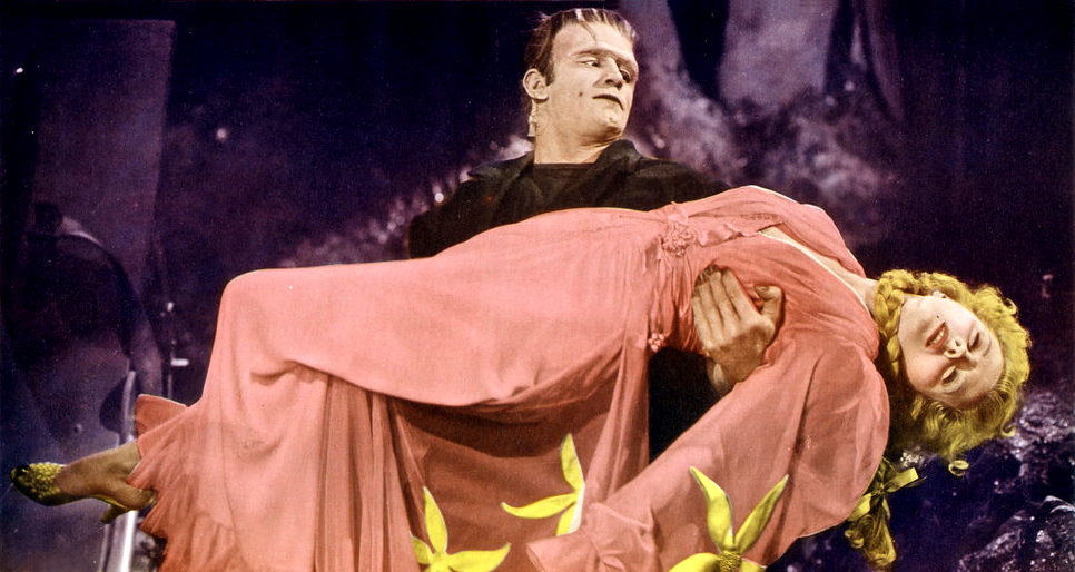 Colored lobby card for Frankenstein Meets the Wolfman (Universal, 1943), featuring Bela Lugosi and Ilona Massey. Image is assumed to be in the public domain as no copyright is in evidence.